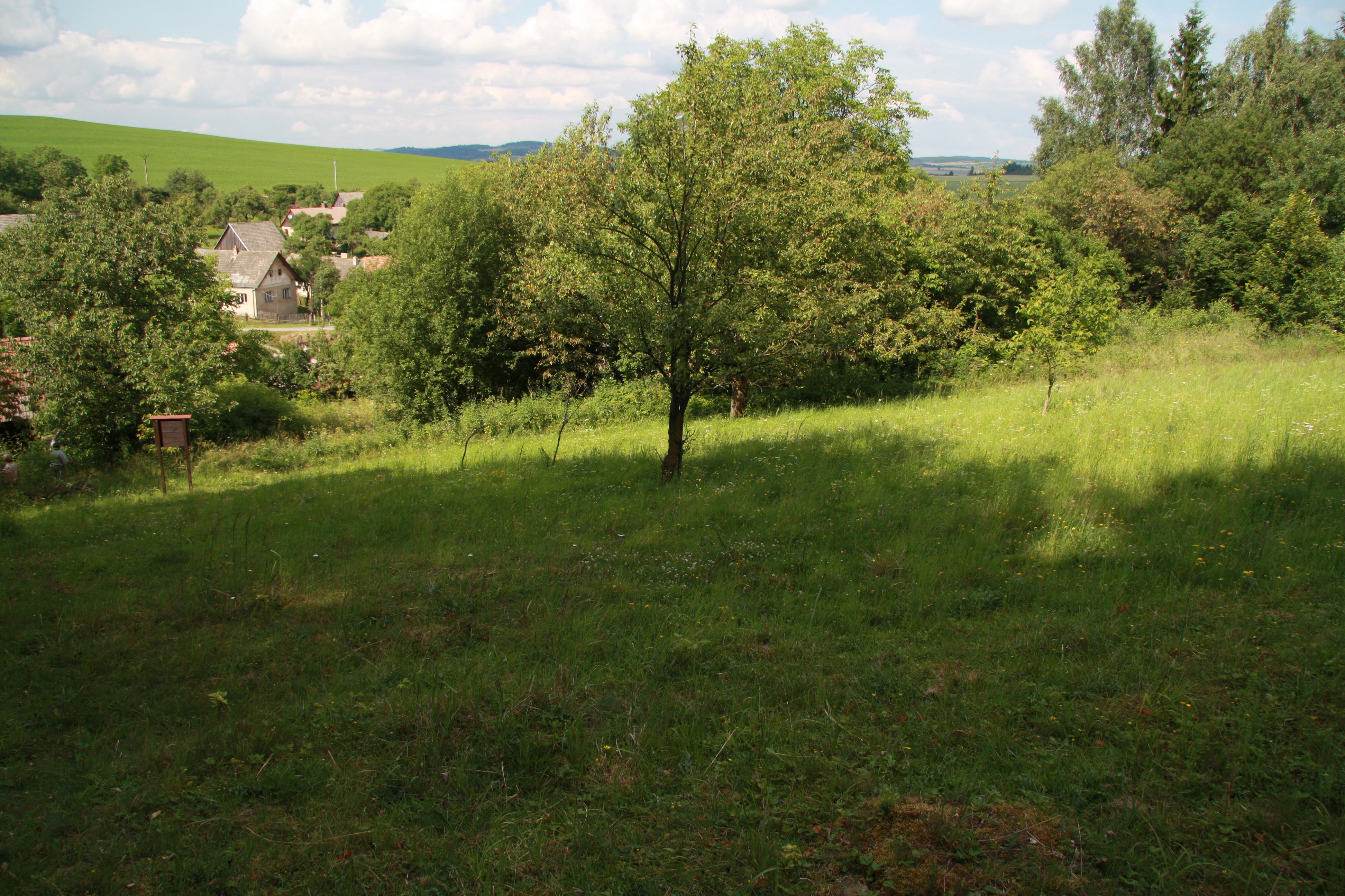 Overview of Na Kopaninách in Radonín, Třebíč District.